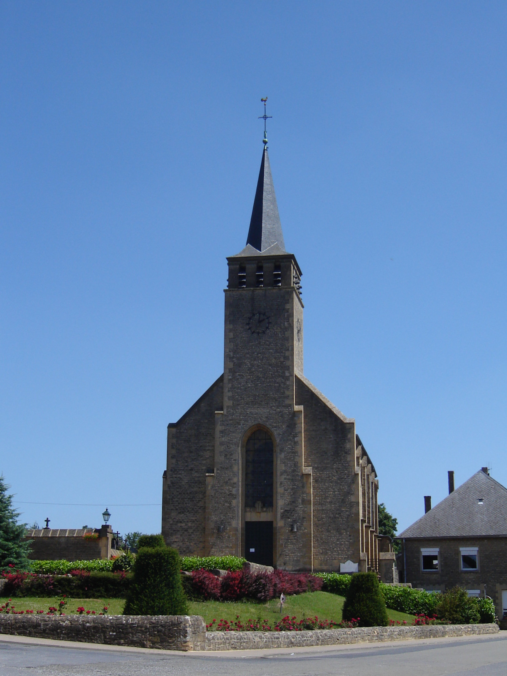 Church of Saint Gangulphus in Villers-devant-Orval, Florenville, Luxembourg, Belgium.